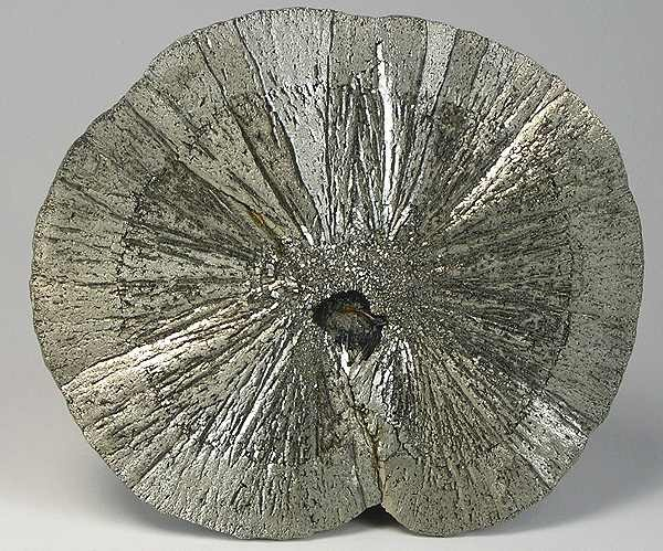 Pyrite Locality: Sparta, Randolph County, Illinois, USA (Locality at ) Size: 10.6 x 9.6 x 0.3 cm. This remarkable form of pyrite is found in narrow seams of shale between seams of coal in the mines near Sparta, Illinois near the 300 foot level. Scientists are not sure of their origin. The main theory is that they are an undetermined fossil that has been replaced by pyrite. At any rate, they are quite remarkable, a shimmering golden color, and complete all around, like a sand dollar.